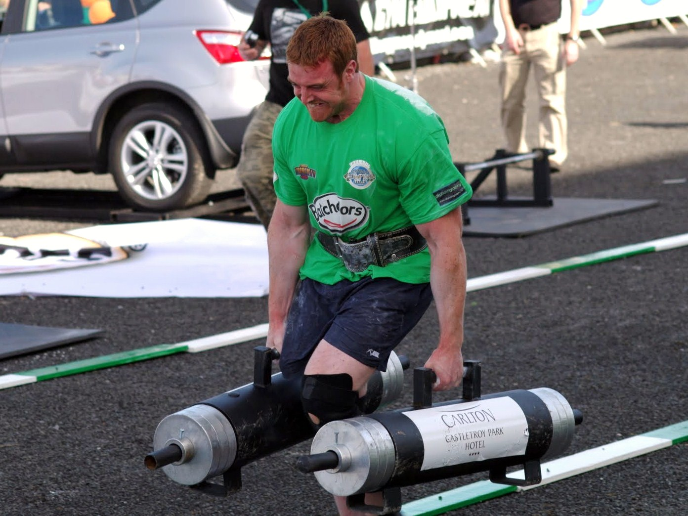 James Fennelly (a strength athlete from the Republic of Ireland) at the Farmer's Walk.